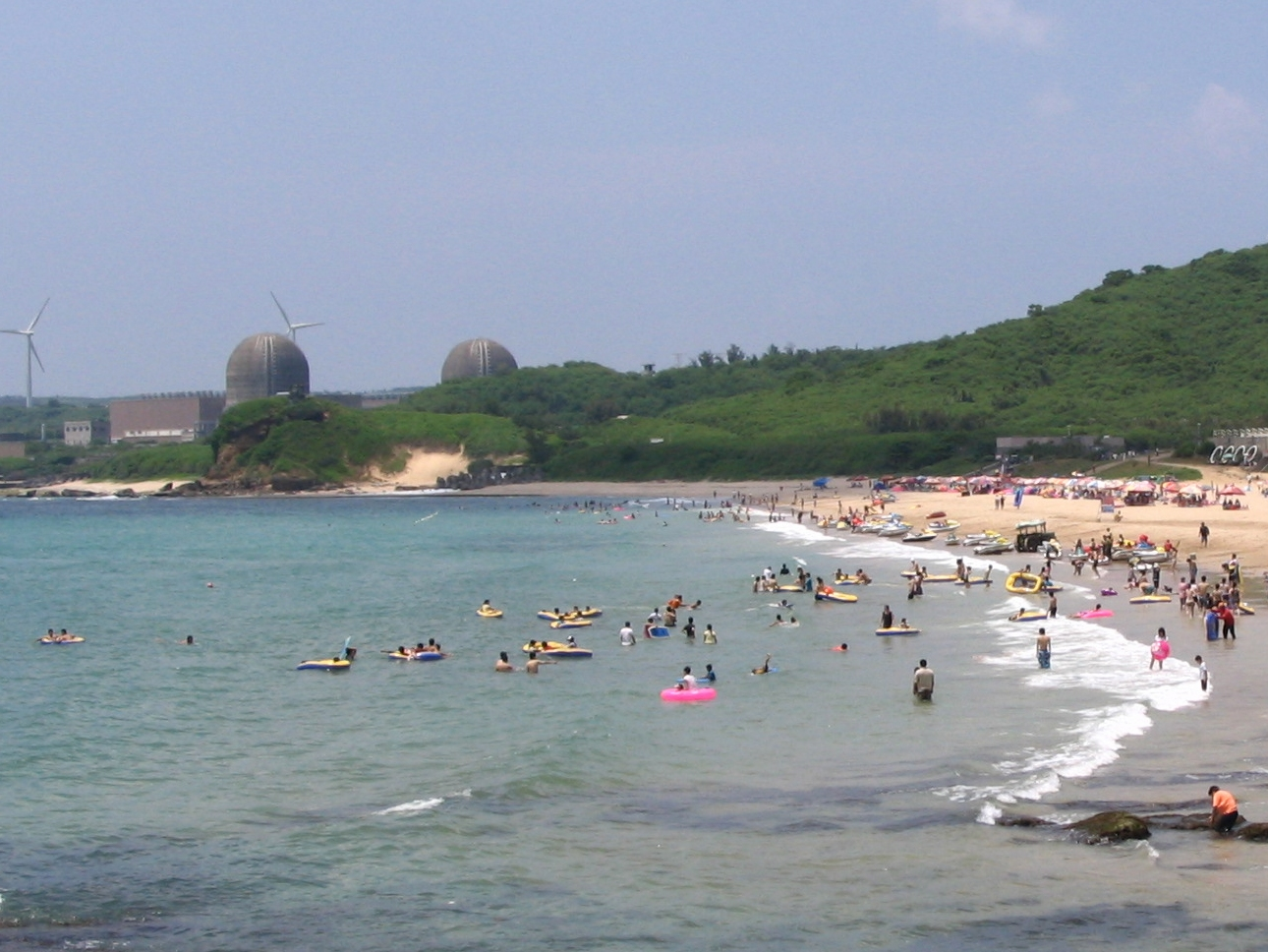 Ma'anshan nuclear power plan in southern Taiwan, Nan Wan Bay